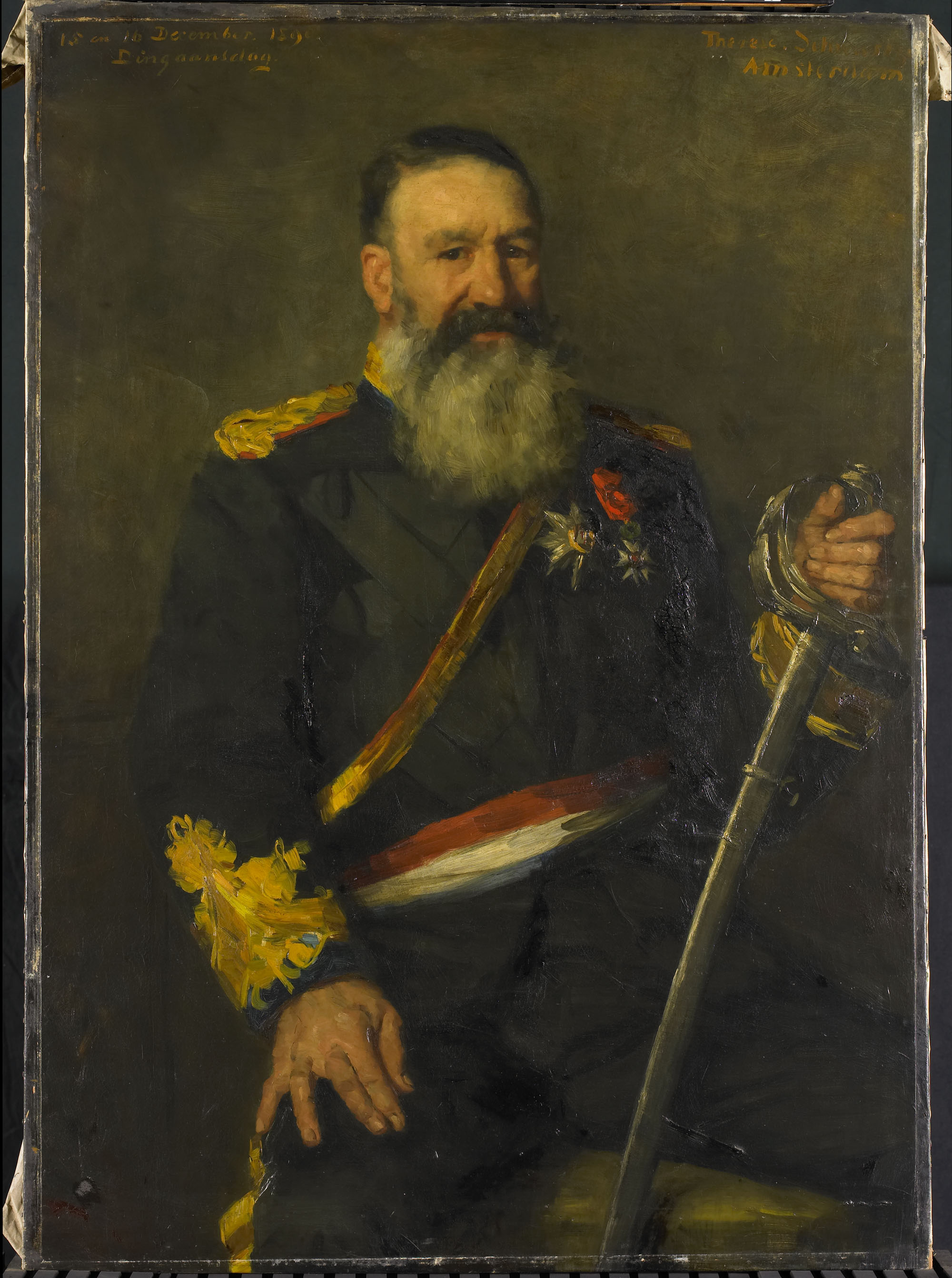 Petrus Jacobus Joubert - Commander-General of the South African Republic. oil on canvas. 125 cm x 89 cm